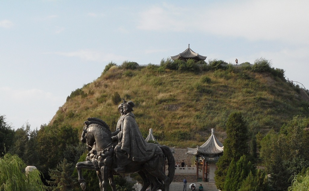 Mounted statue of Wang Zhaojun and her husband the Khan at the Wang Zhaojun Tomb, Inner Mongolia